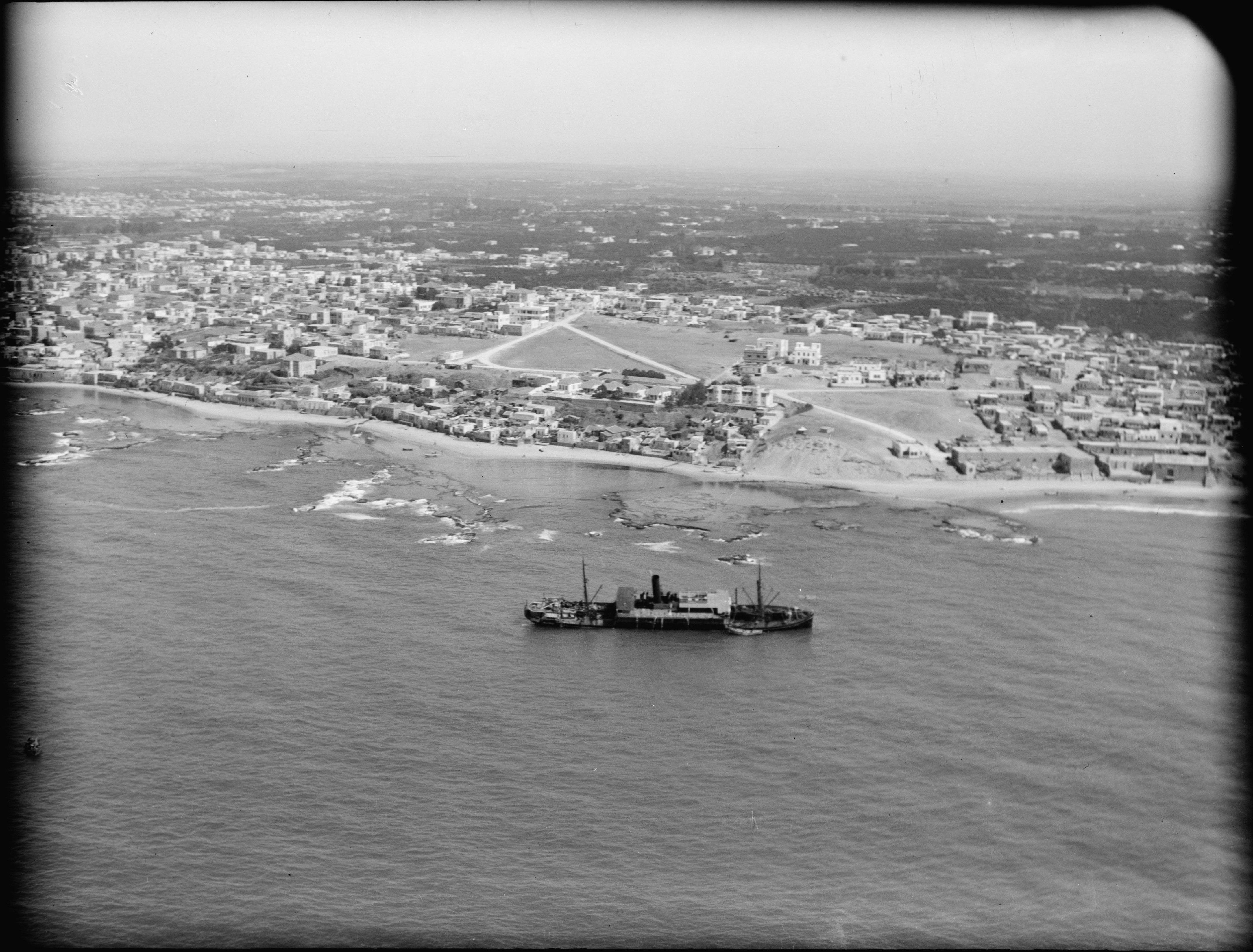 Title: Air views of Palestine. Jaffa, Auji River and Levant Fair. Grounded orange steamer on S. coast of Jaffa looking inland. Orange groves in distance Abstract/medium: G. Eric and Edith Matson Photograph Collection Physical description: 1 negative